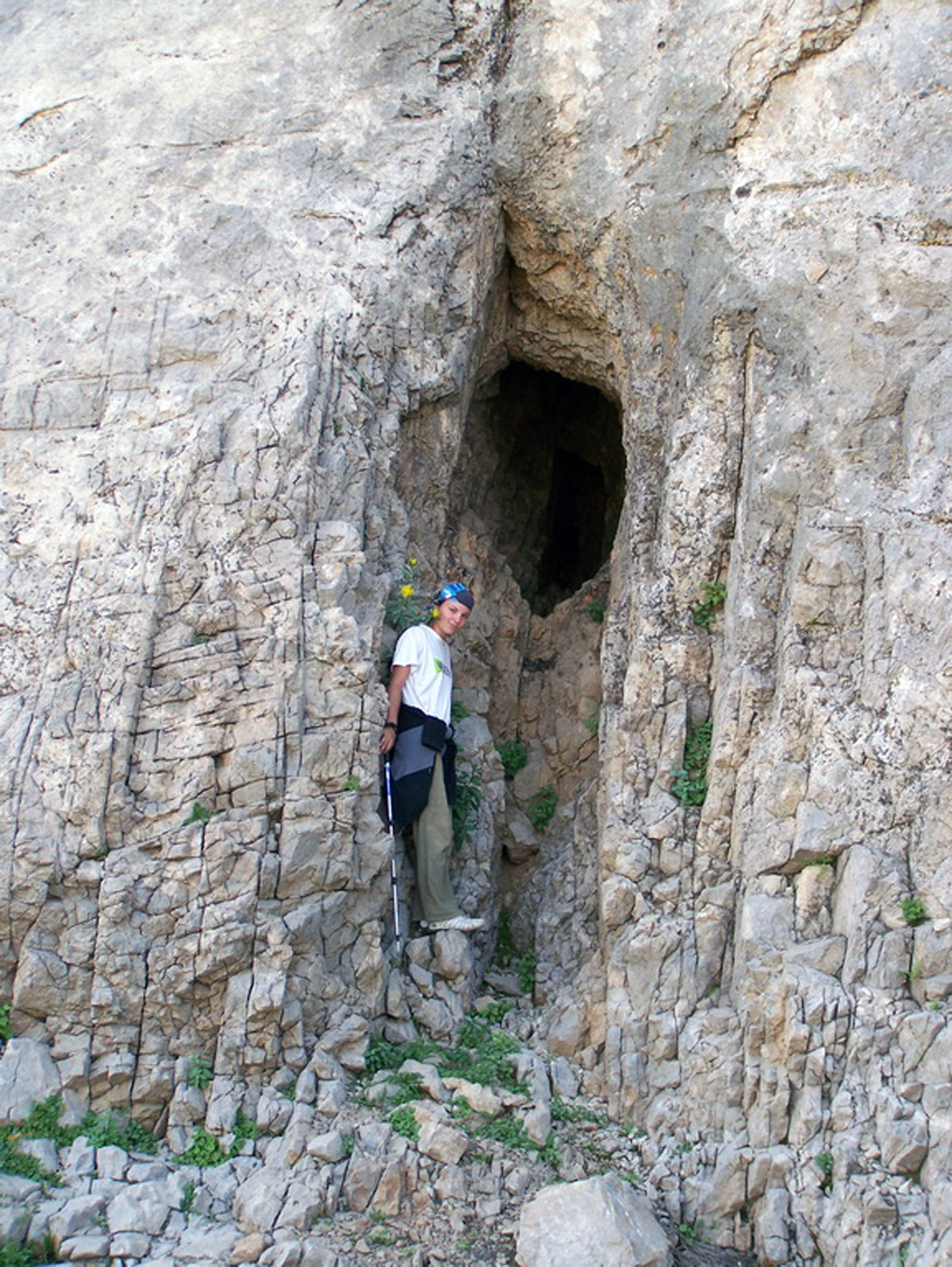 Cave in the Pulatkhan cliff side. Tashkent area, Uzbekistan.